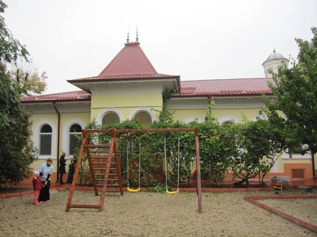 Ananda Marga (AMURTEL) Gradinita Rasarit ("Sunrise nursery school") in Bucarest (Romania).